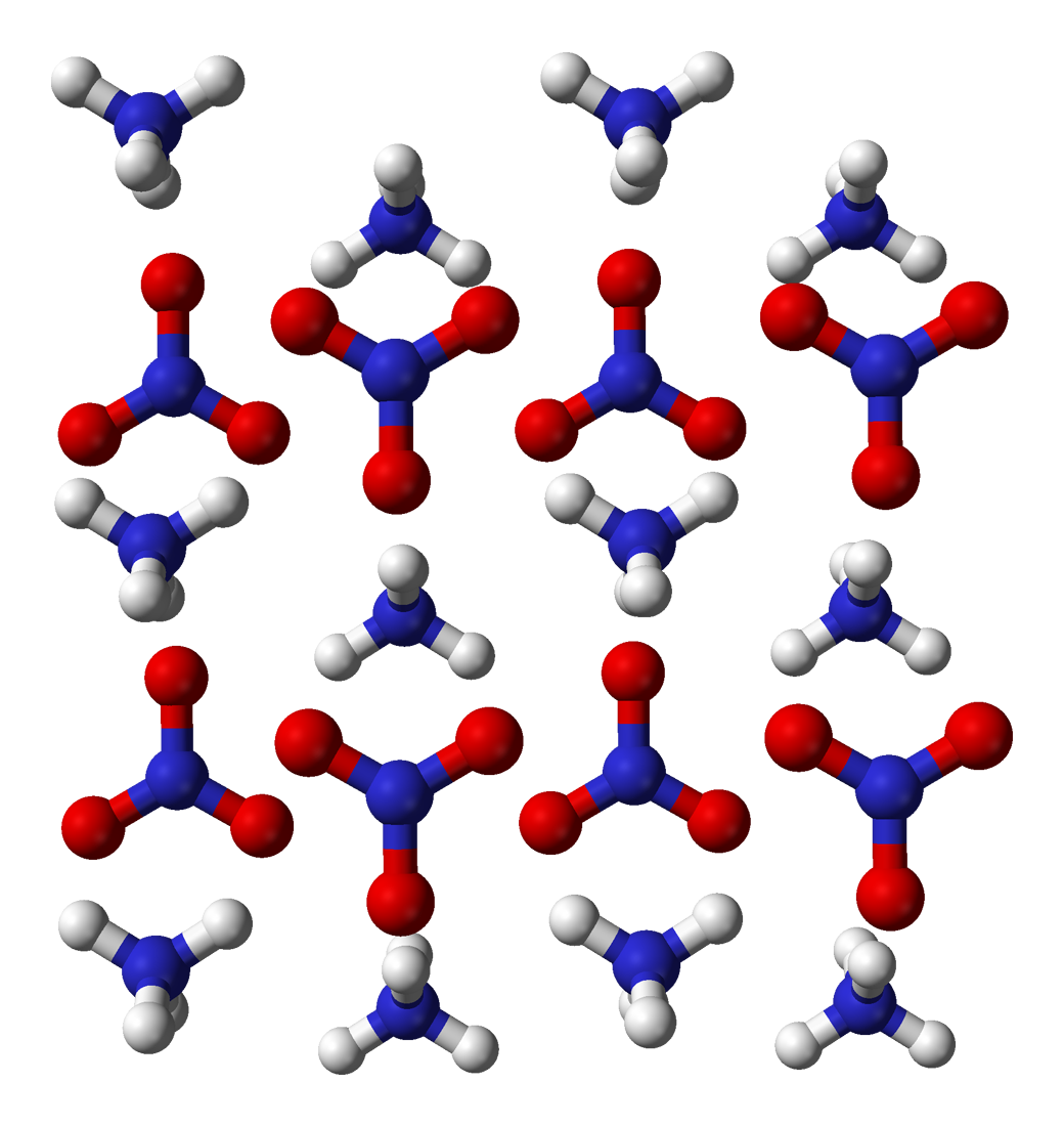 Ball-and-stick model of the part of the crystal structure of ammonium nitrate, [NH4][NO3]. Original structure determination available at C. S. Choi, J. E. Mapes and E. Prince (May 1972). "The structure of ammonium nitrate (IV)". Acta Cryst. 'B28' (5): 1357-1361. Image generated in Accelrys DS Visualizer.